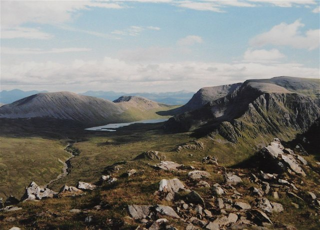 Càrn Dearg summit ridge The broken blocks along Càrn Dearg's ridge seem to blend into the Long Leacas of Ben Alder. Beinn Bheòil is on the other side of Locn an Bhealaich Bheithe. A perfect day paid for by all the previous miserable ones.